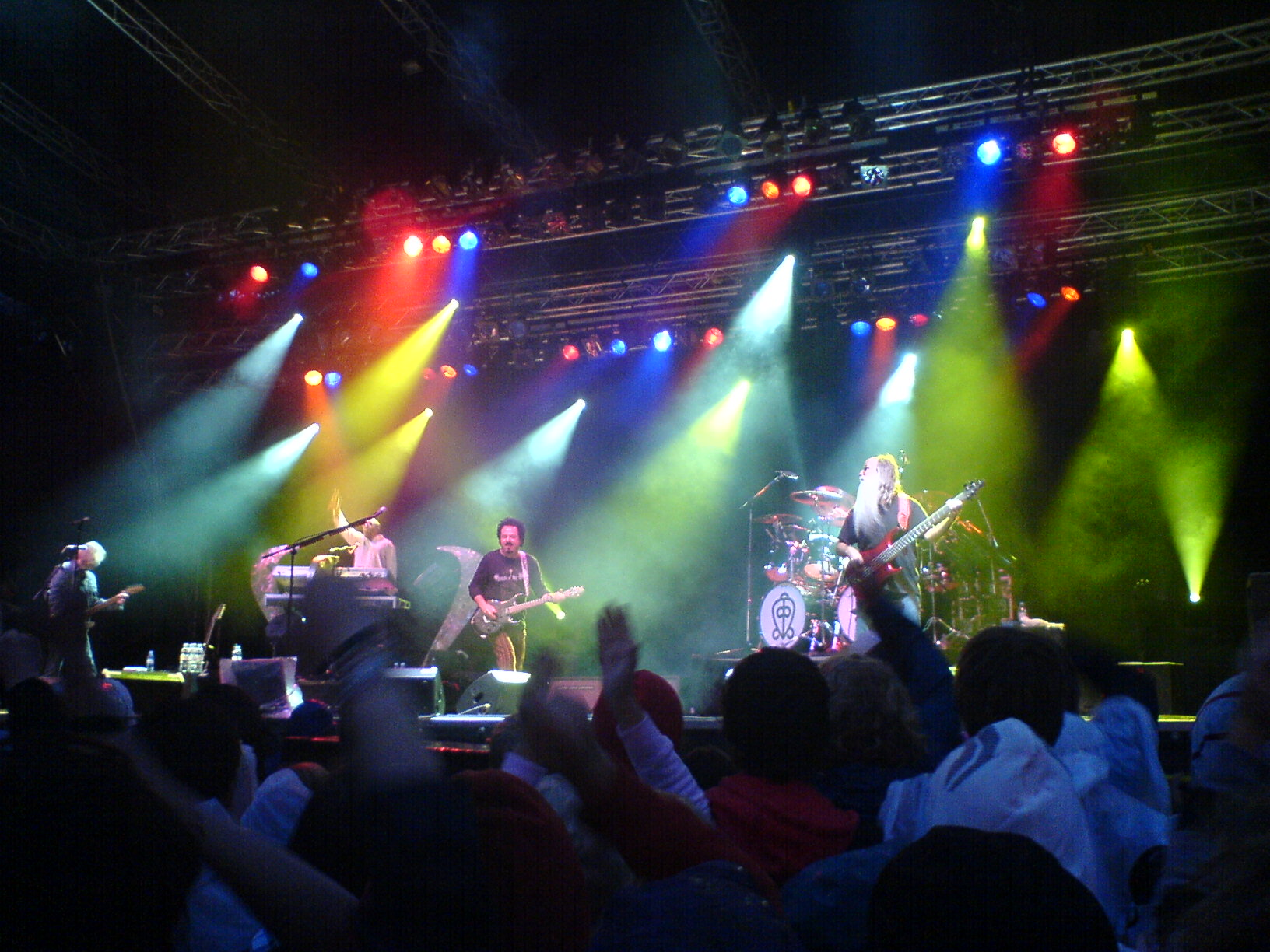 Toto in concert during Olavsfestdagene in Trondheim, Norway